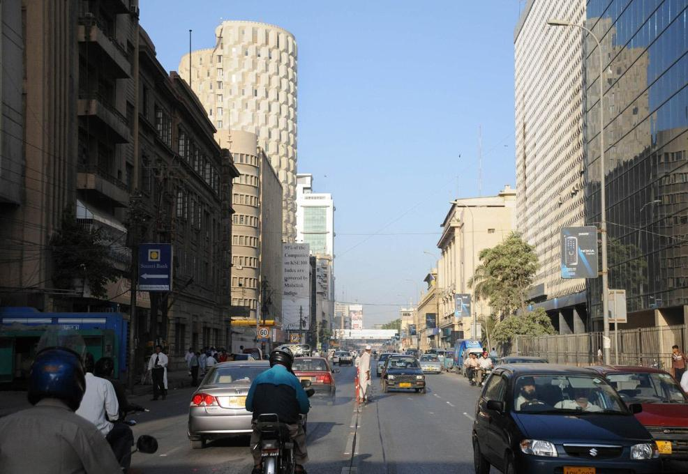 I. I. Chundrigar Road, with 20th century architecture, in central Karachi, Pakistan